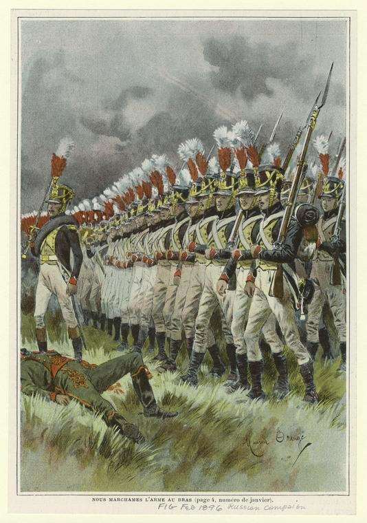 Image Caption: Nous marchames l'arme au bras. Written on board: "Feb. 1896" "Russian campaign."